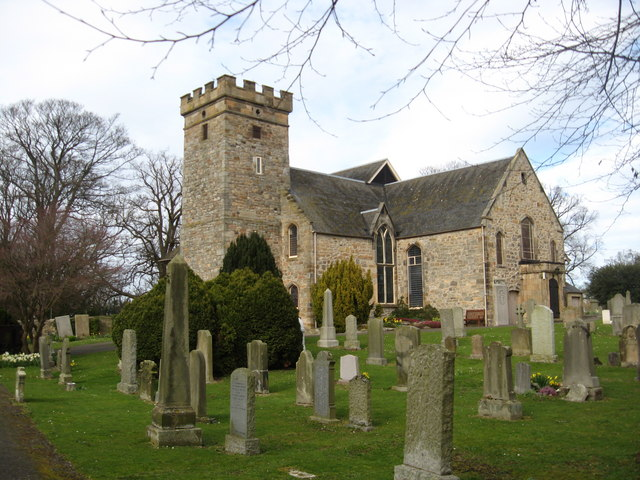 Cramond Kirk In the 2nd century AD a Roman Fort stood on this site but there has been a place of worship here since the 6th century.